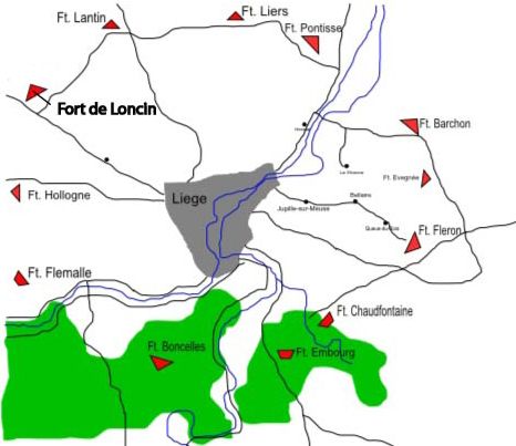 Schematic map of the fortresses around Liege, 1914, with the Fort de Loncin highlighted